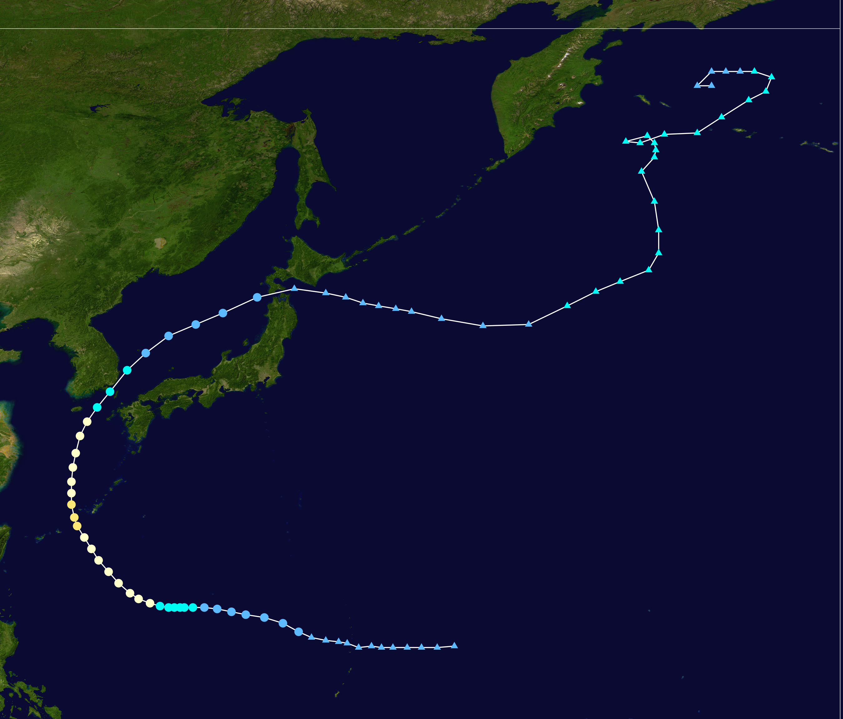 Typhoon Gilda 1974 track. Uses the color scheme from the Saffir-Simpson Hurricane Scale.